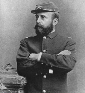 Col. Sylvester Bonnaffon, Jr. (1844-1922), a native of Philadelphia, Pennsylvania, served as the commanding officer of the 20th Regiment (emergency) of the Pennsylvania National Guard during the Pittsburgh railroad strike of 1877. In 1893, he was awarded the U.S. Congressional Medal of Honor "for distinguished gallantry at the Battle of Boydton Plank Road, Virginia, October 27, 1864" during the American Civil War.